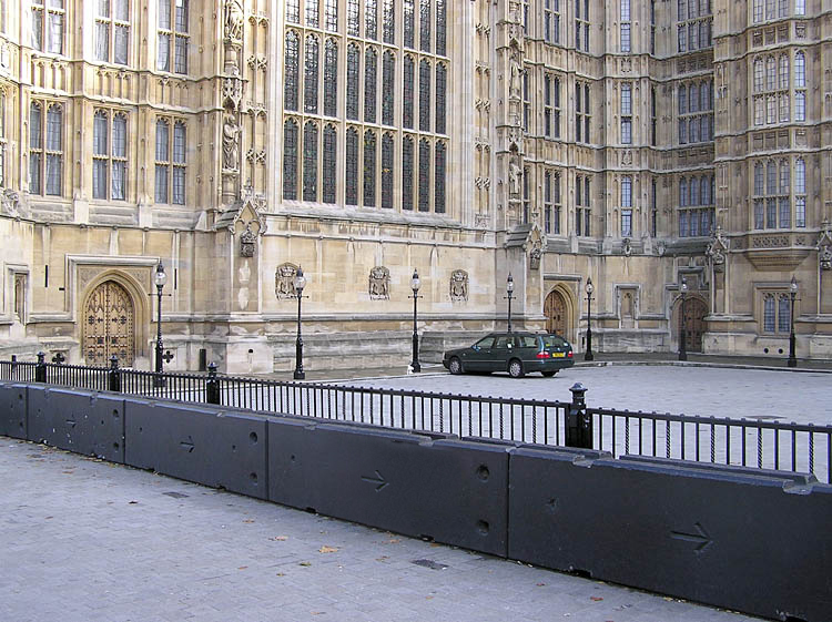 A security measure outside the Houses of Parliament, London, England. These heavy black-painted blocks of concrete will prevent a vehicle being rammed into the building. Taken by Adrian Pingstone in November 2004 and released to the public domain, edited using PSE 3.0 to remove woman by Max Naylor.